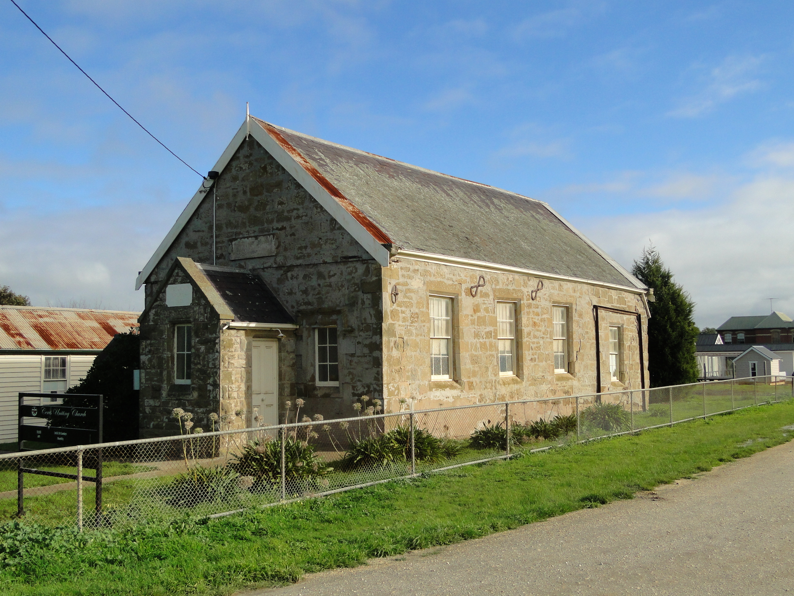 The Wesleyan Chapel at Ceres, Victoria, Australia. Built in 1853 it is now owned by the Uniting Church.